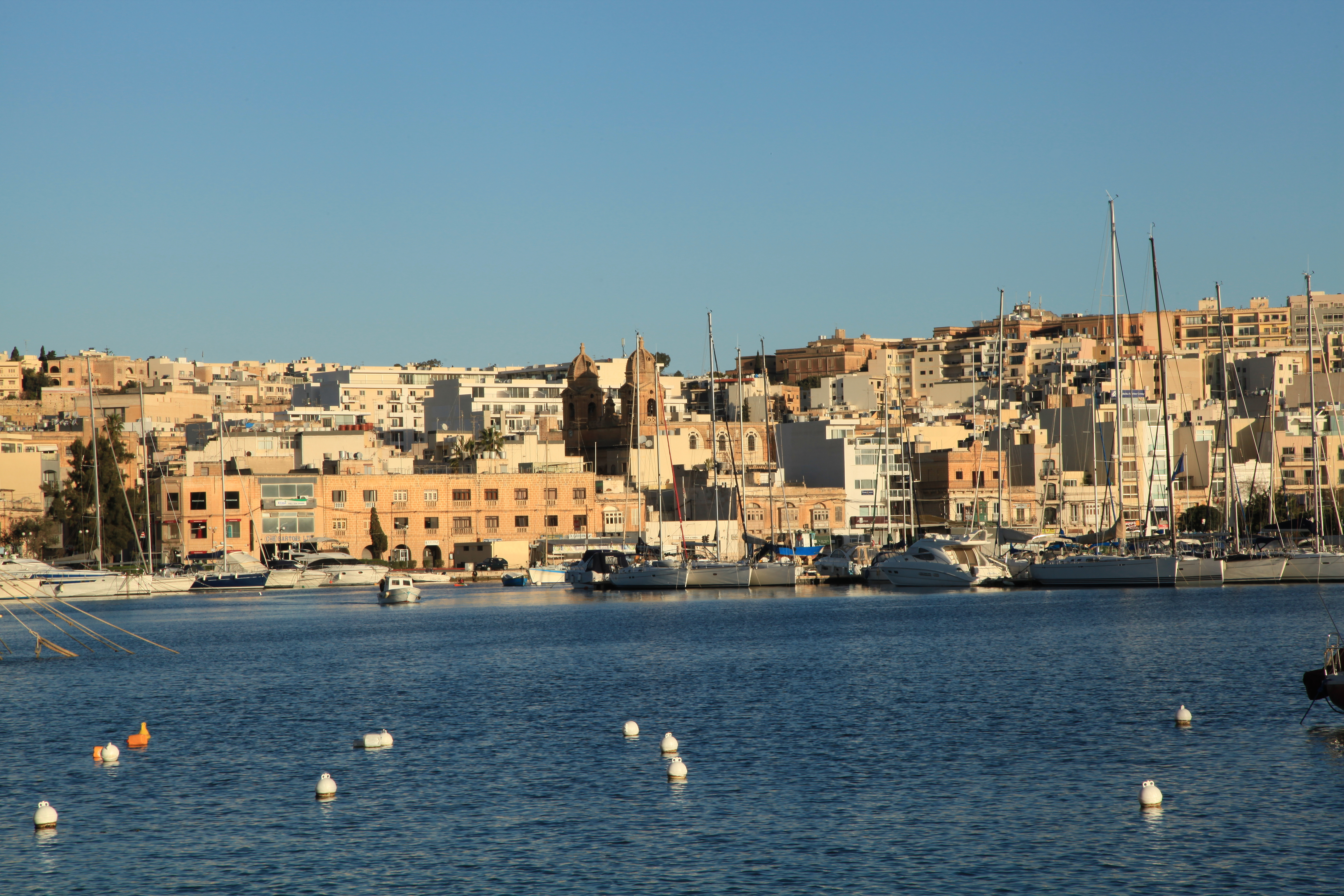 View from Ix-Xatt Ta' Xbiex in Ta' Xbiex to Gżira, Malta